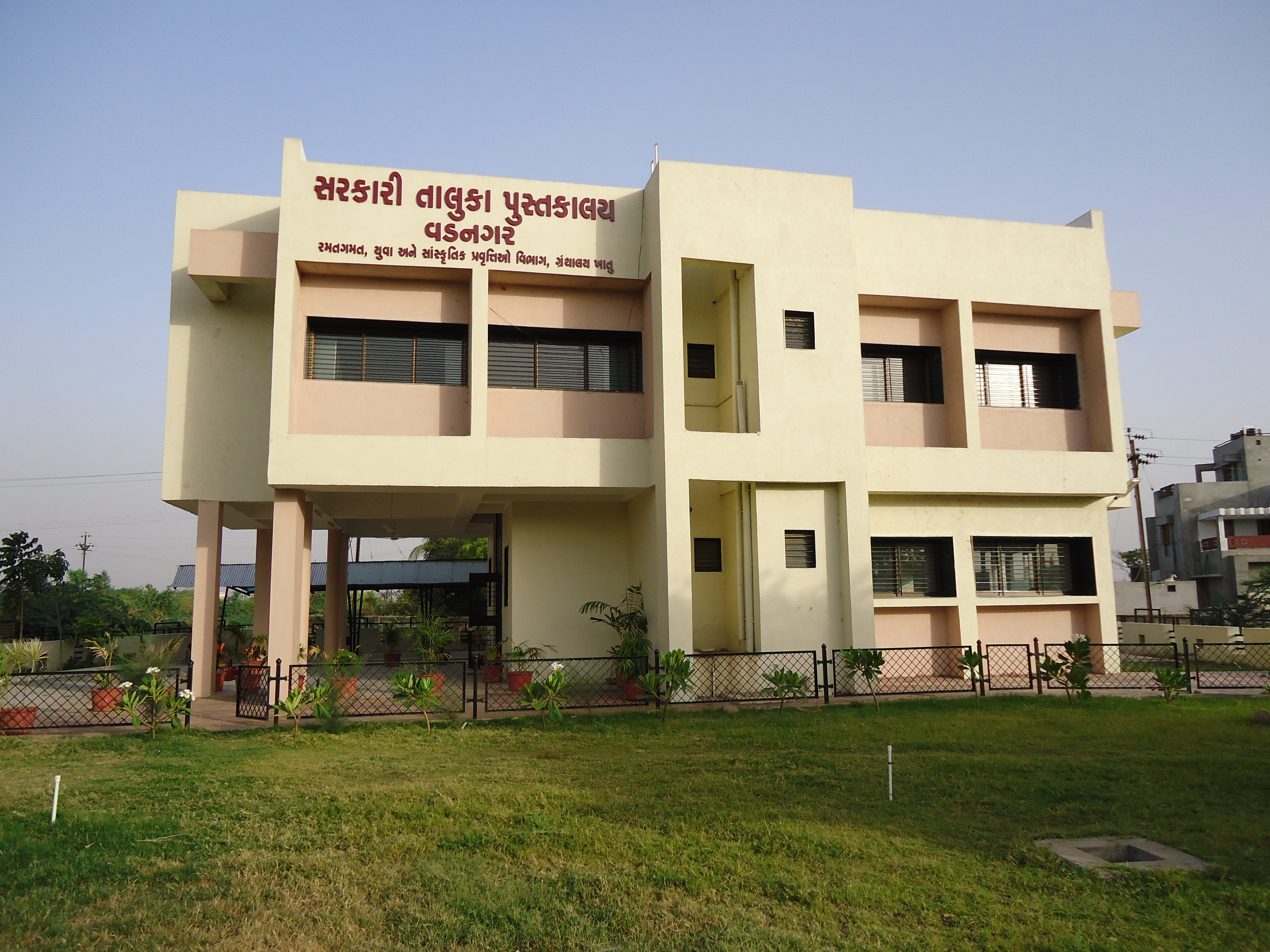 Government library of Vadnagar, Gujarat, India